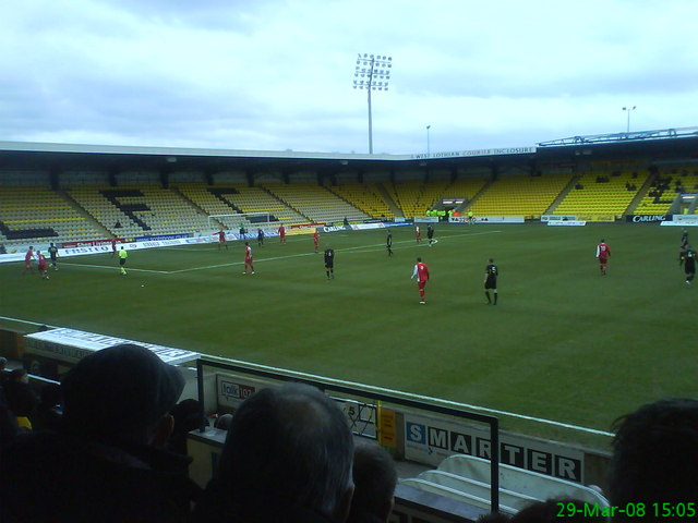 Almondvale Stadium, North Stand View from the West Stand at Almondvale Stadium across to the empty North Stand (all very original names at Fortress Livi). This particular afternoon saw Livingston beat Stirling Albion 2-1.